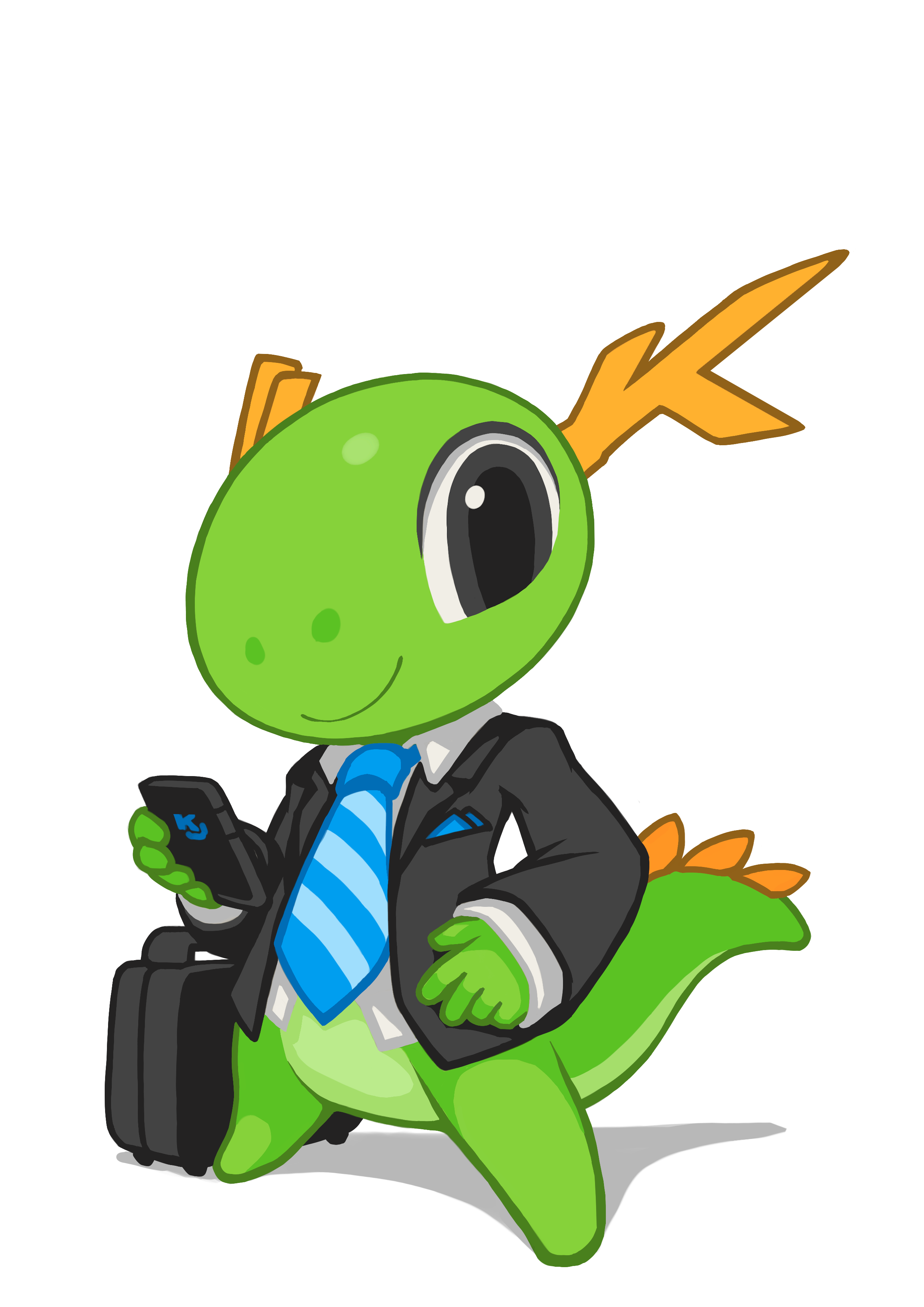 KDE mascot Konqi for business affairs.